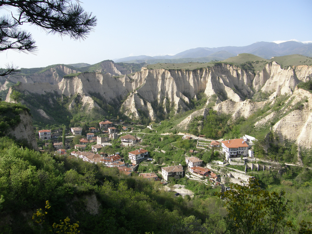 view of Melnik, Bulgaria